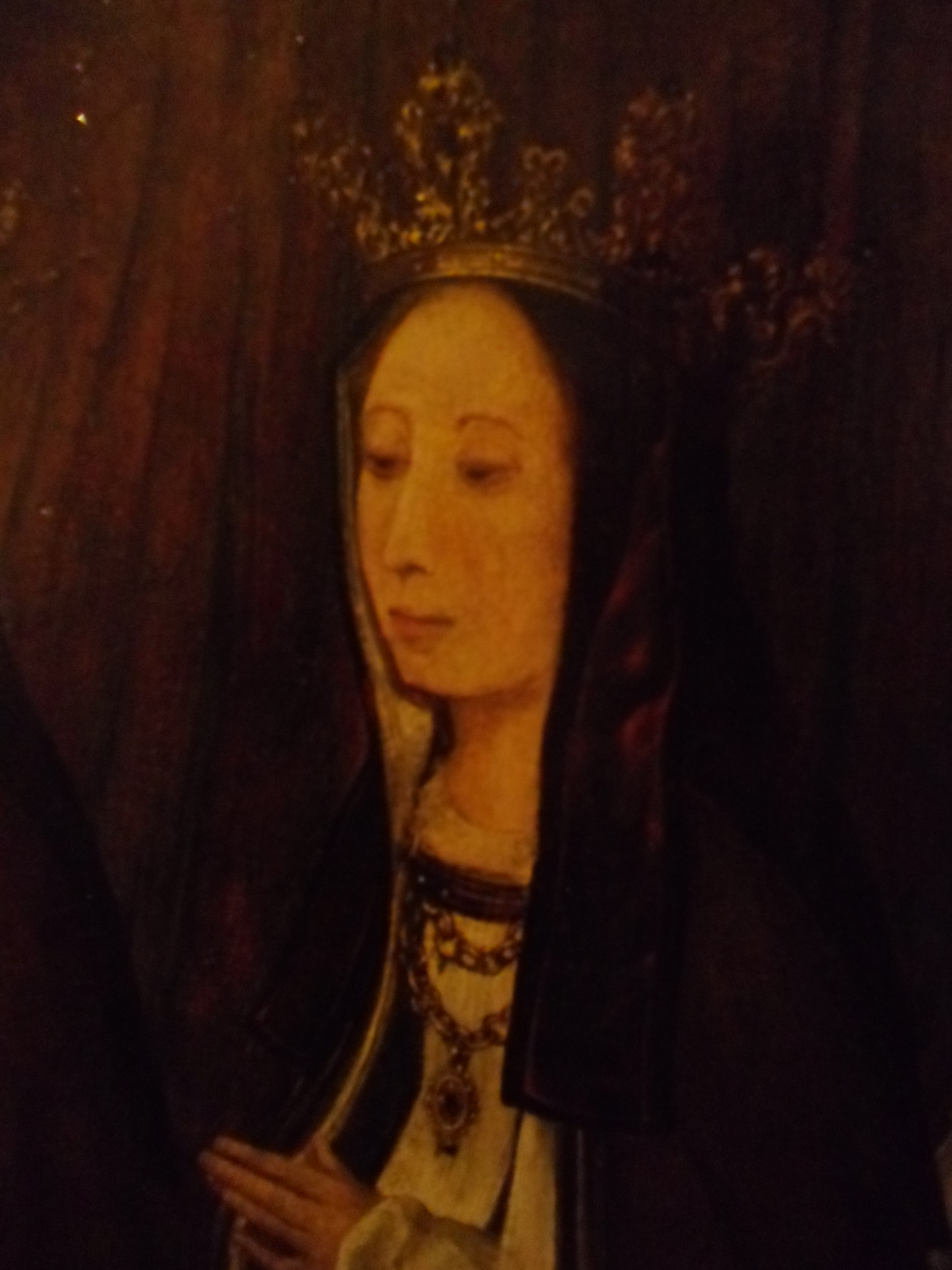 Detail from a painting showing the family of King Henry VII of England.